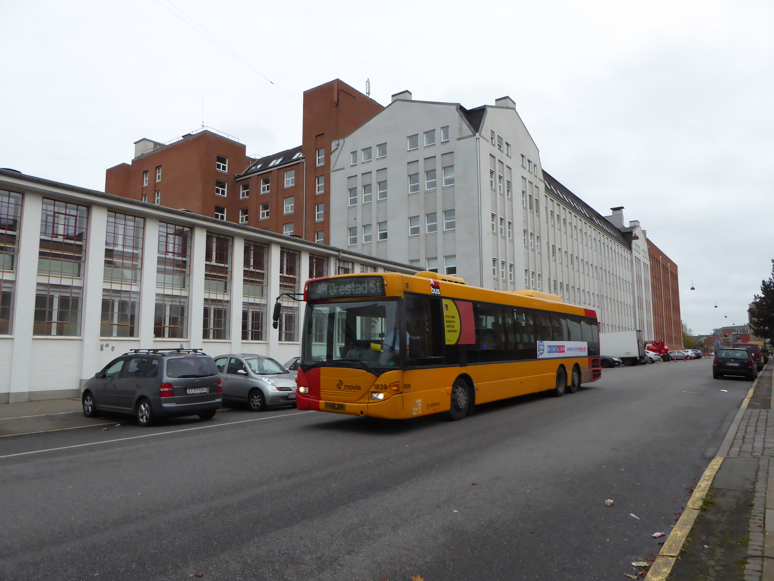 Movia bus line 4A on Vermundsgade in Østerbro in Copenhagen.